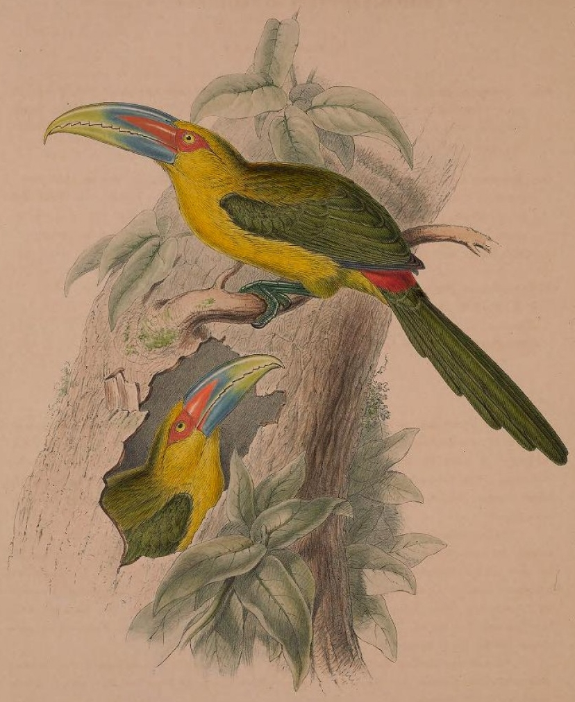 Illustrations of the toucan Pteroglossus bailloni.